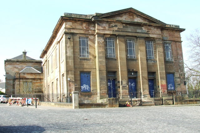 Former United Presbyterian Church On School Wynd, leading to Oakshaw Hill.